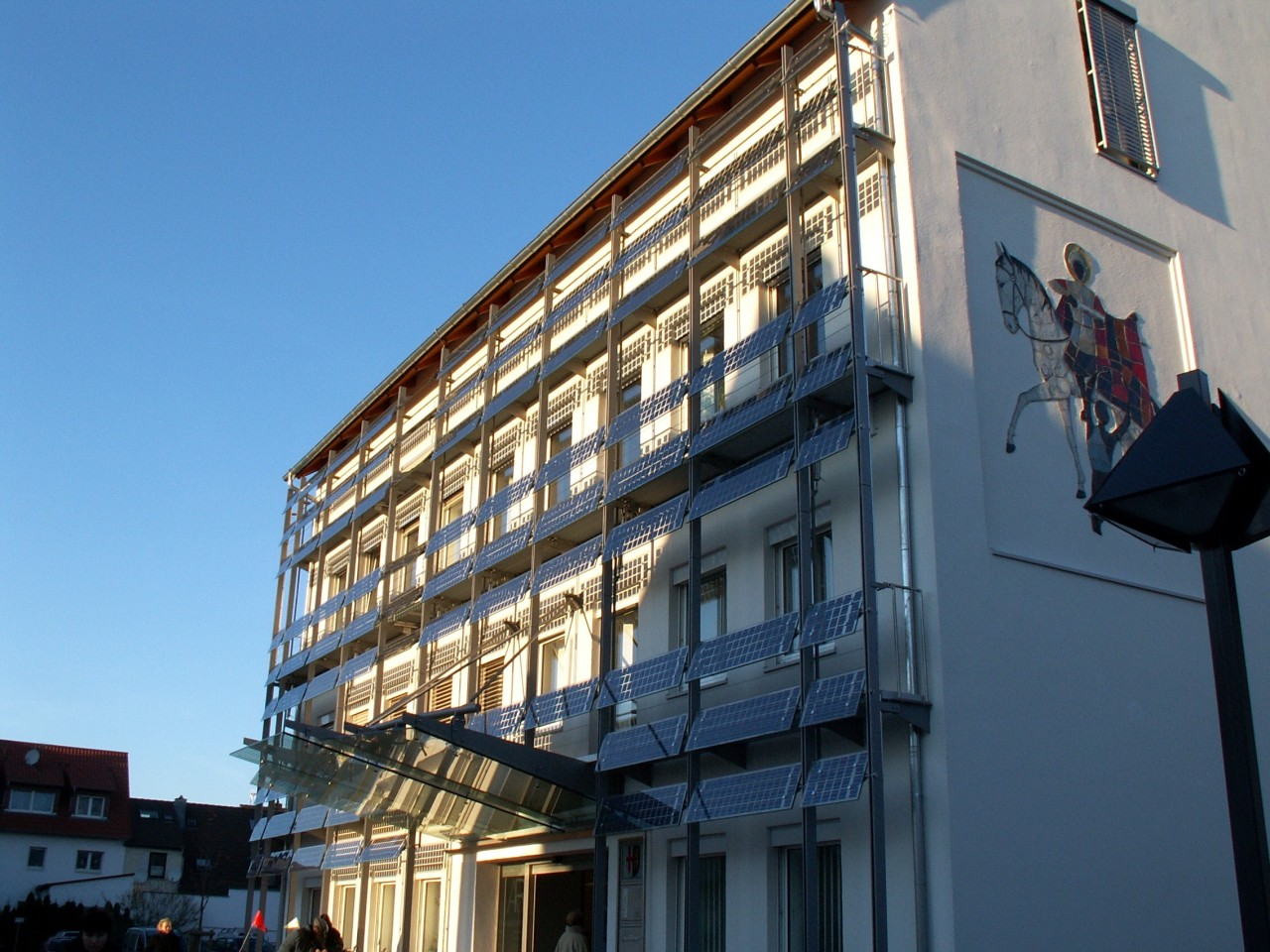 Photo of the city hall in Edingen of Edingen-Neckarhausen, Germany